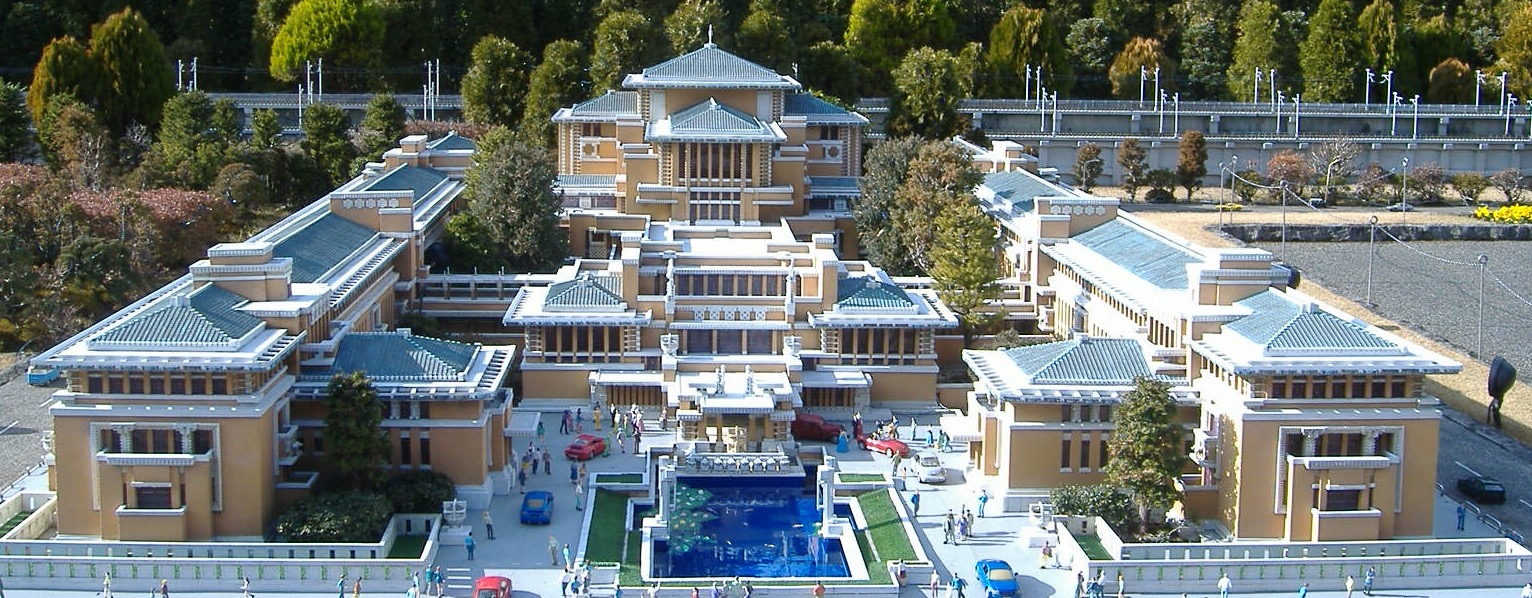 Photograph of a scaled model of Frank Lloyd Wright's Imperial Hotel